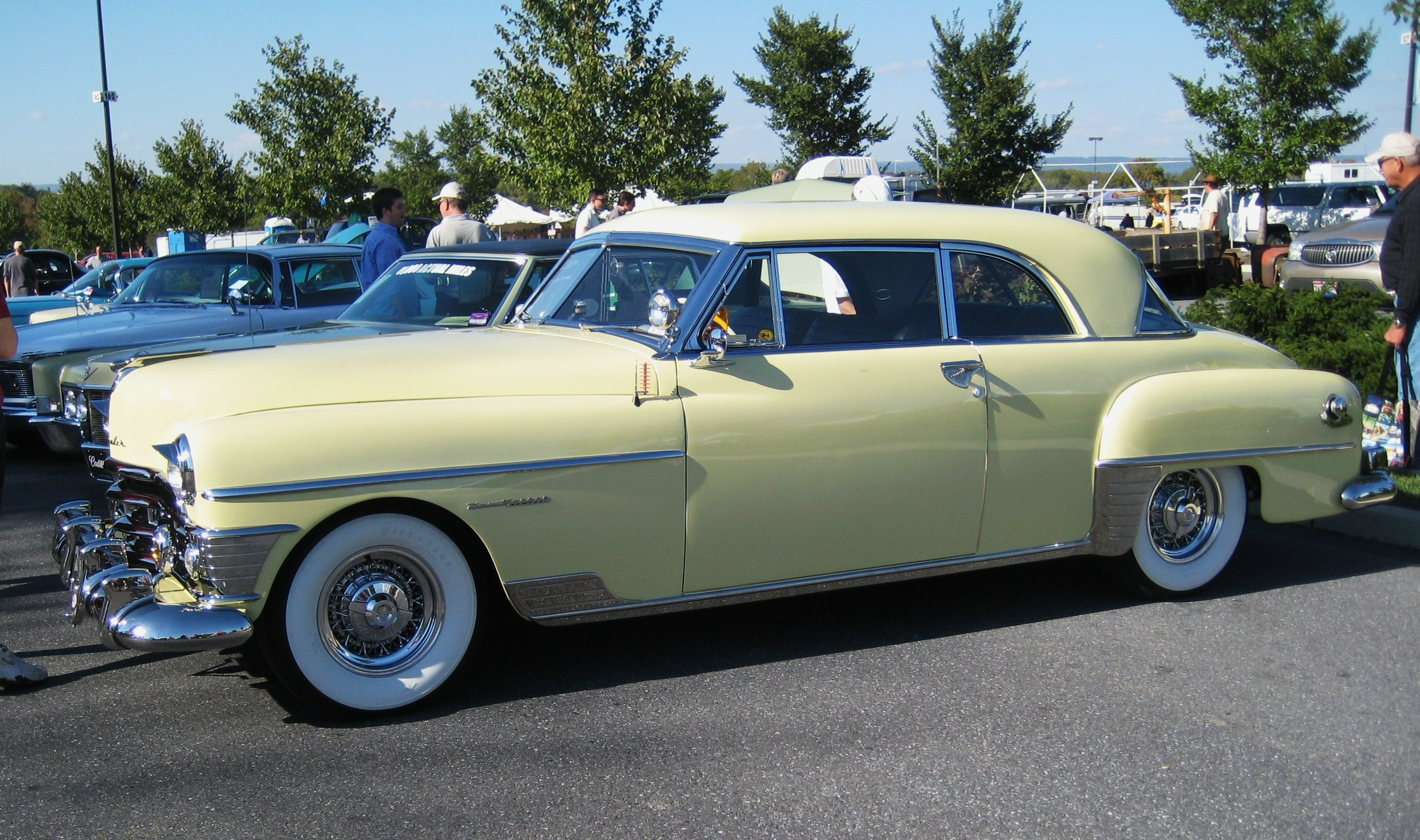 Seen at Hershey 2010